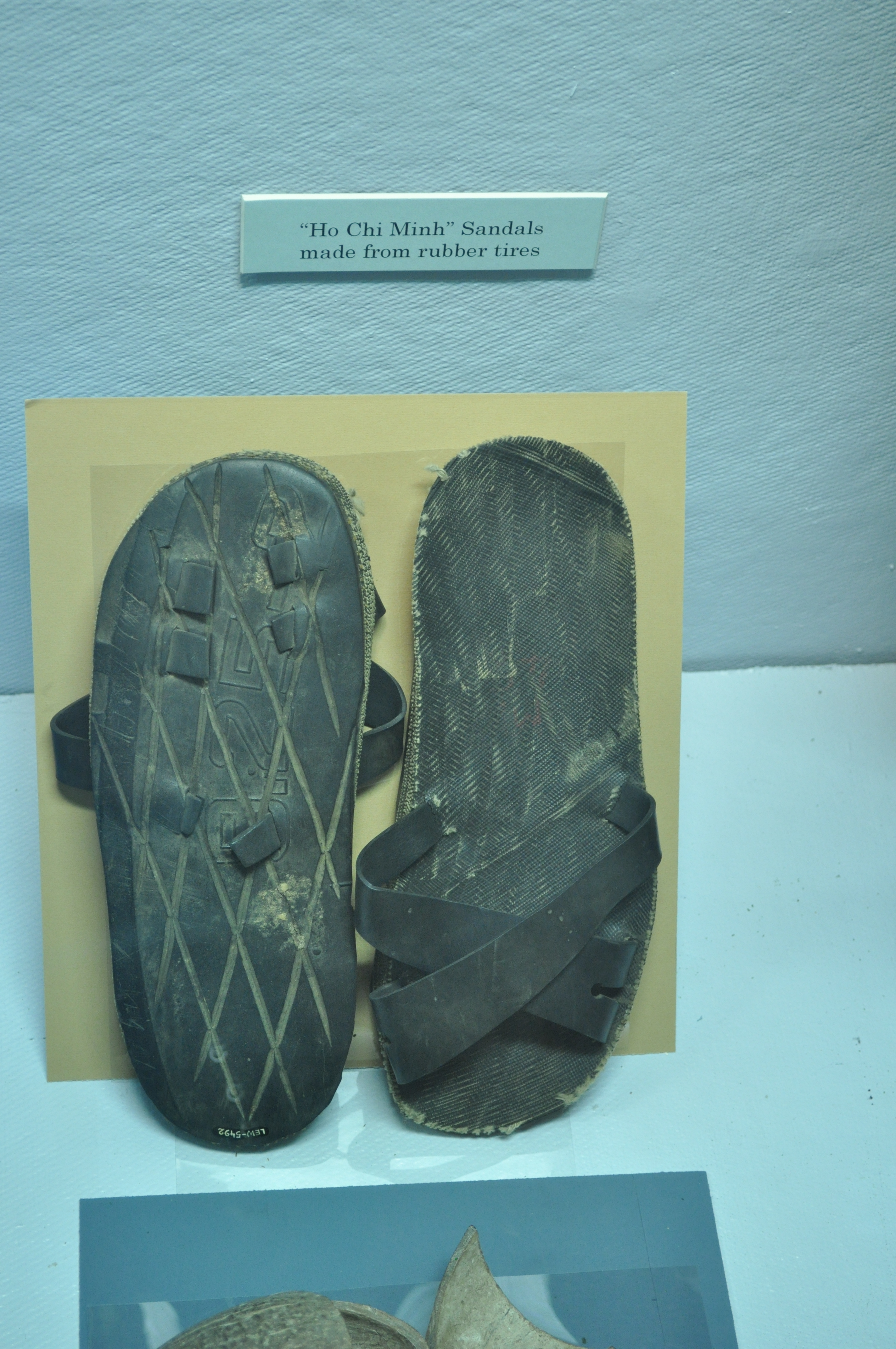 Sandals made from tire treads, the so-called "Ho Chi Minh sandals" or "B.F. Goodrich sandals", part of exhibit: the Vietcong, Fort Lewis Military Museum, Fort Lewis, Washington, USA.